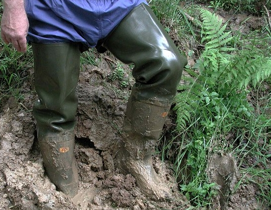 Hip boots in the mud